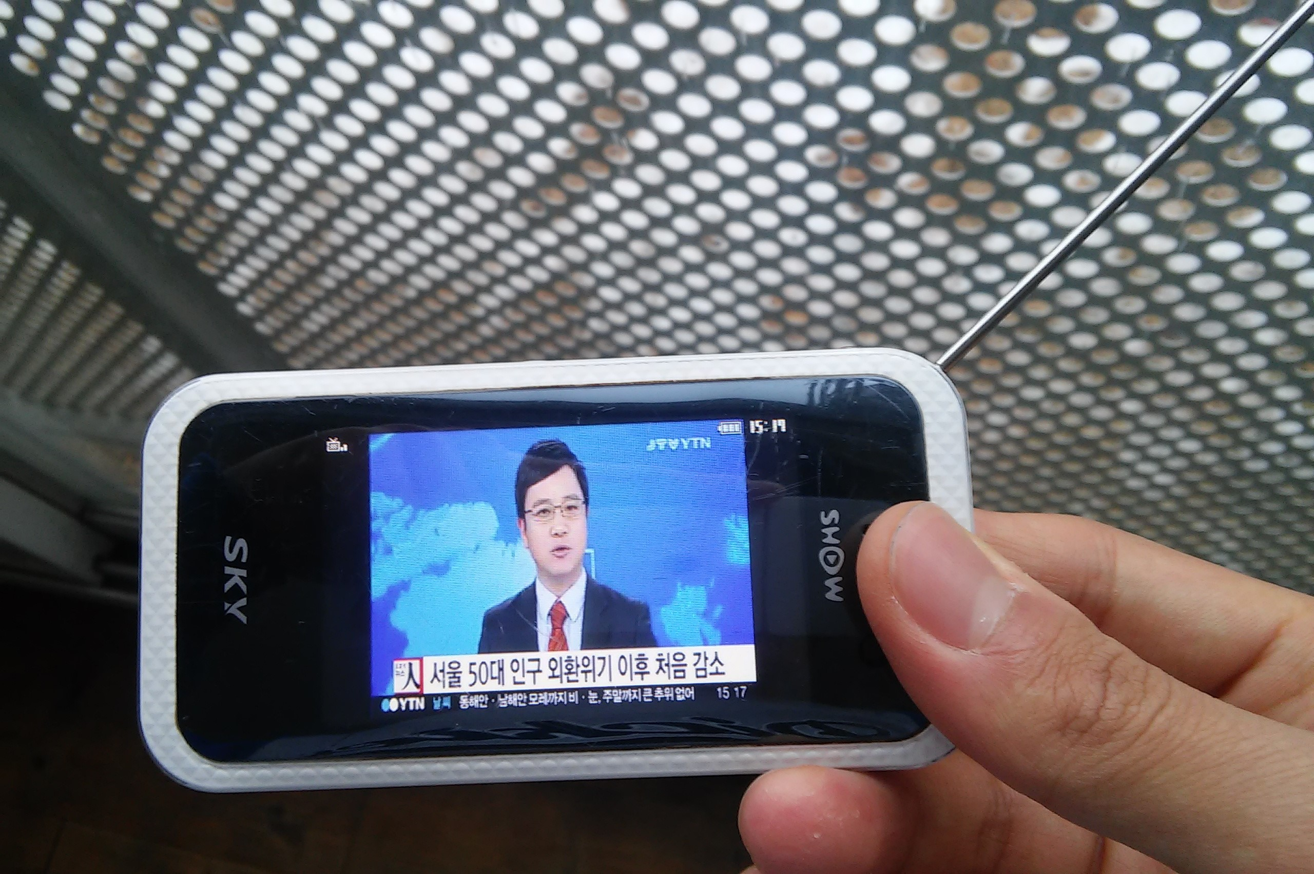 DMB Phone